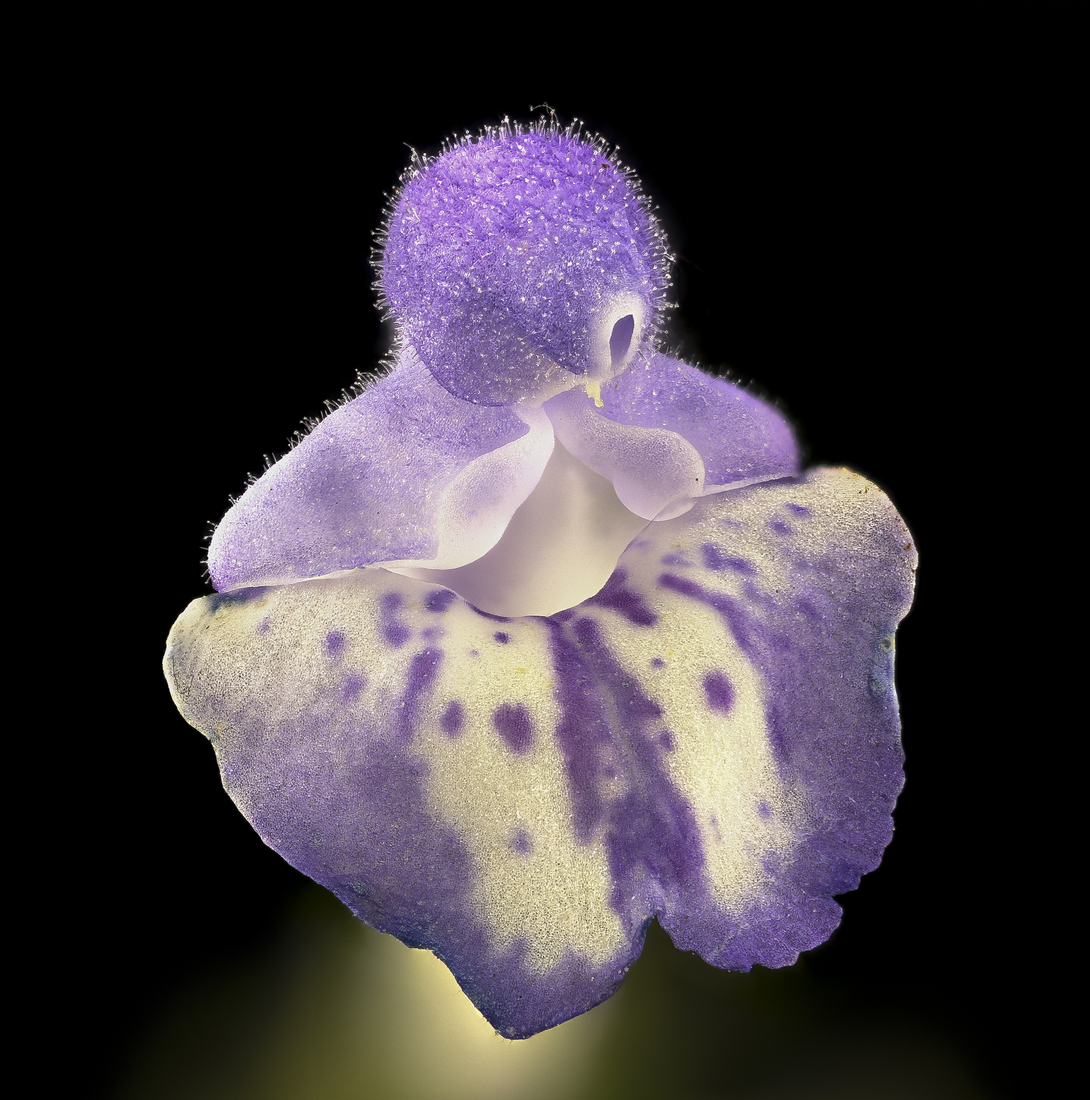 Another small mint ...here we have Scutellaria elliptica. Look close. What is going on here? Why all this architecture? lips, hoods, long corollas...why purple with white patches and spots...could it have to do with bees? so many questions. Specimen and photograph by Helen Lowe Metzman. 18:36, 9 February 2018 (UTC)18:36, 9 February 2018 (UTC) 0 18:36, 9 February 2018 (UTC)18:36, 9 February 2018 (UTC) All photographs are public domain, feel free to download and use as you wish. Photography Information: Canon Mark II 5D, Zerene Stacker, Stackshot Sled, 65mm Canon MP-E 1-5X macro lens, Twin Macro Flash in Styrofoam Cooler, F5.0, ISO 100, Shutter Speed 200 Beauty is truth, truth beauty - that is all Ye know on earth and all ye need to know " Ode on a Grecian Urn" John Keats You can also follow us on Instagram - account = USGSBIML Want some Useful Links to the Techniques We Use? Well now here you go Citizen: Art Photo Book: Bees: An Up-Close Look at Pollinators Around the World Free Field Guide to Bee Genera of Maryland Basic USGSBIML set up: USGSBIML Photoshopping Technique: Note that we now have added using the burn tool at 50% opacity set to shadows to clean up the halos that bleed into the black background from "hot" color sections of the picture. Bees of Maryland Organized by Taxa with information on each Genus PDF of Basic USGSBIML Photography Set Up: ftp://ftpext.usgs.gov/pub/er/md/laurel/Droege/How%20to%20Take%20MacroPhotographs%20of%20Insects%20BIML%20Lab2.pdf Google Hangout Demonstration of Techniques: or Excellent Technical Form on Stacking: Contact information: Sam Droege 301 497 5840